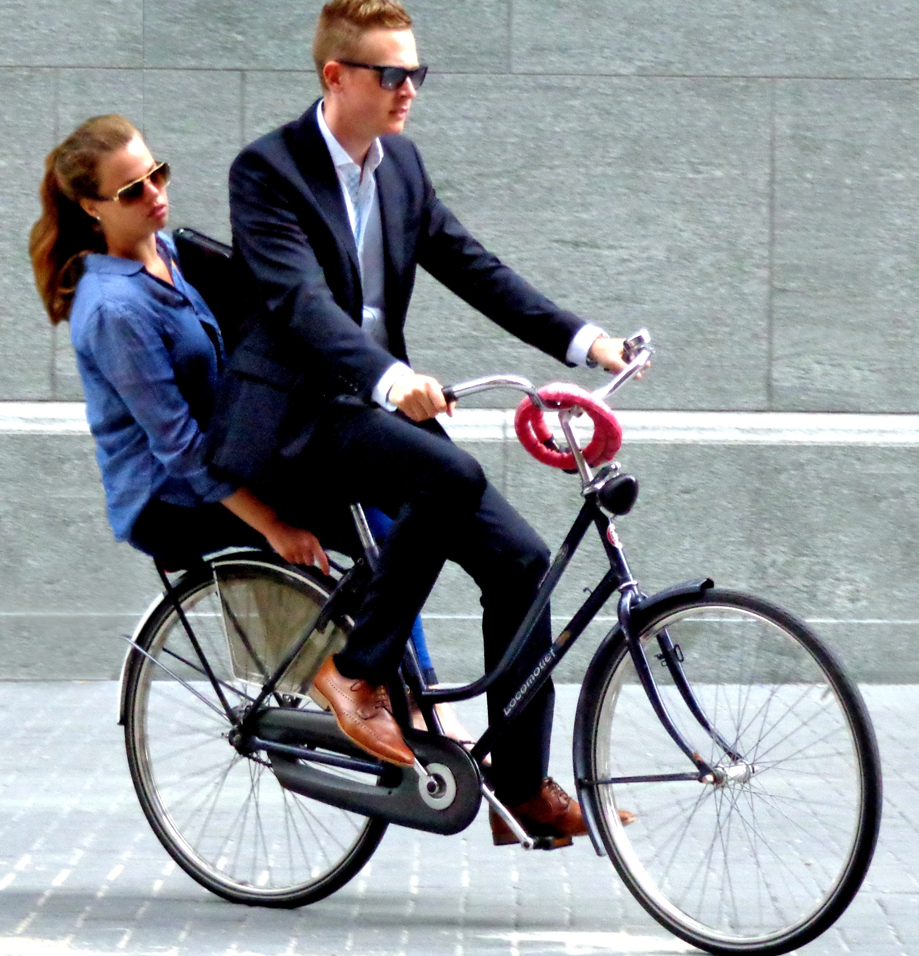 Cycling couple. Very important: if any of the the persons in this photo would like not to be presented in this photo, even considering that I published it freely in Wikimedia and for non-profit educational purposes, kindly let me know, that I would remove the photo immediately .